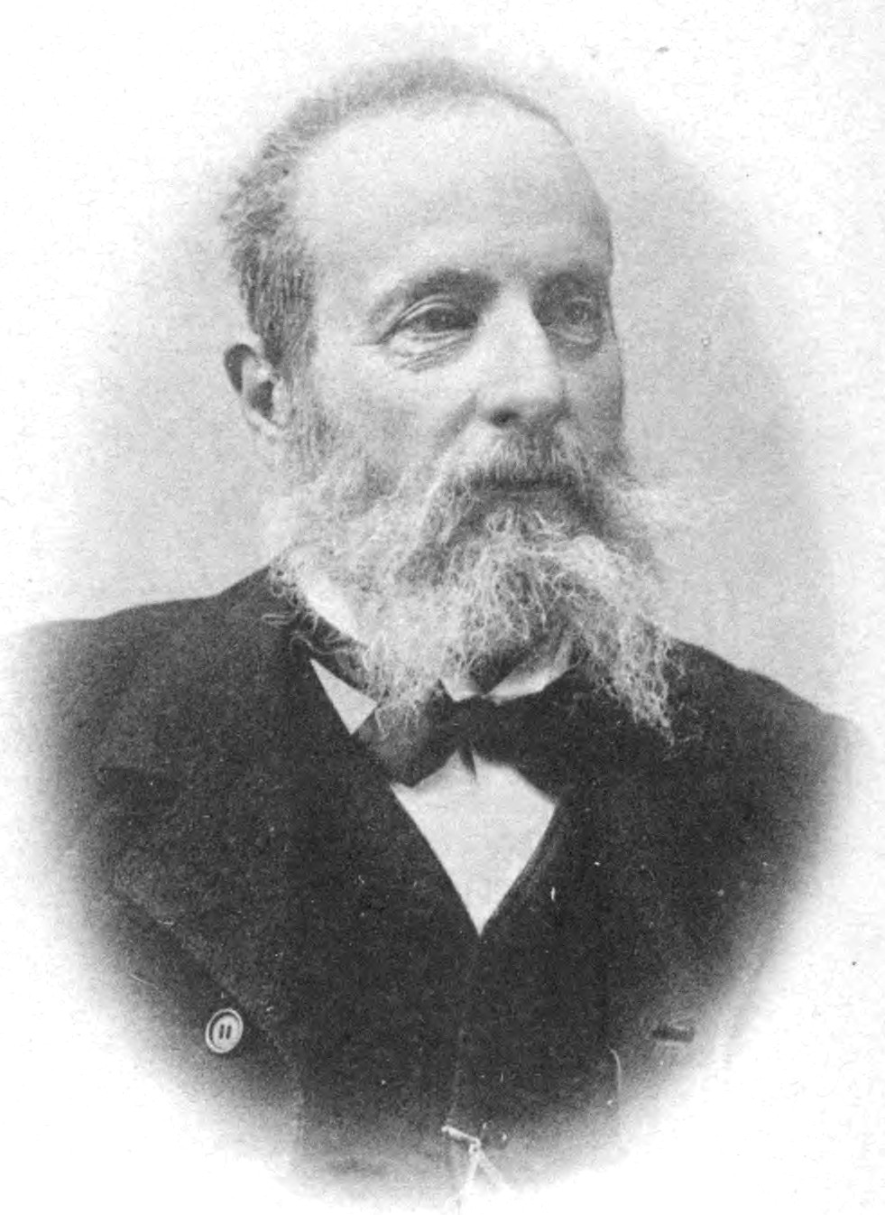 Image from the Italian book Le rime di Lorenzo Stecchetti, by Olindo Guerrini (using the art name of Lorenzo Stecchetti), Zanichelli, Bologna 1905. Portrait of the author, 1902.